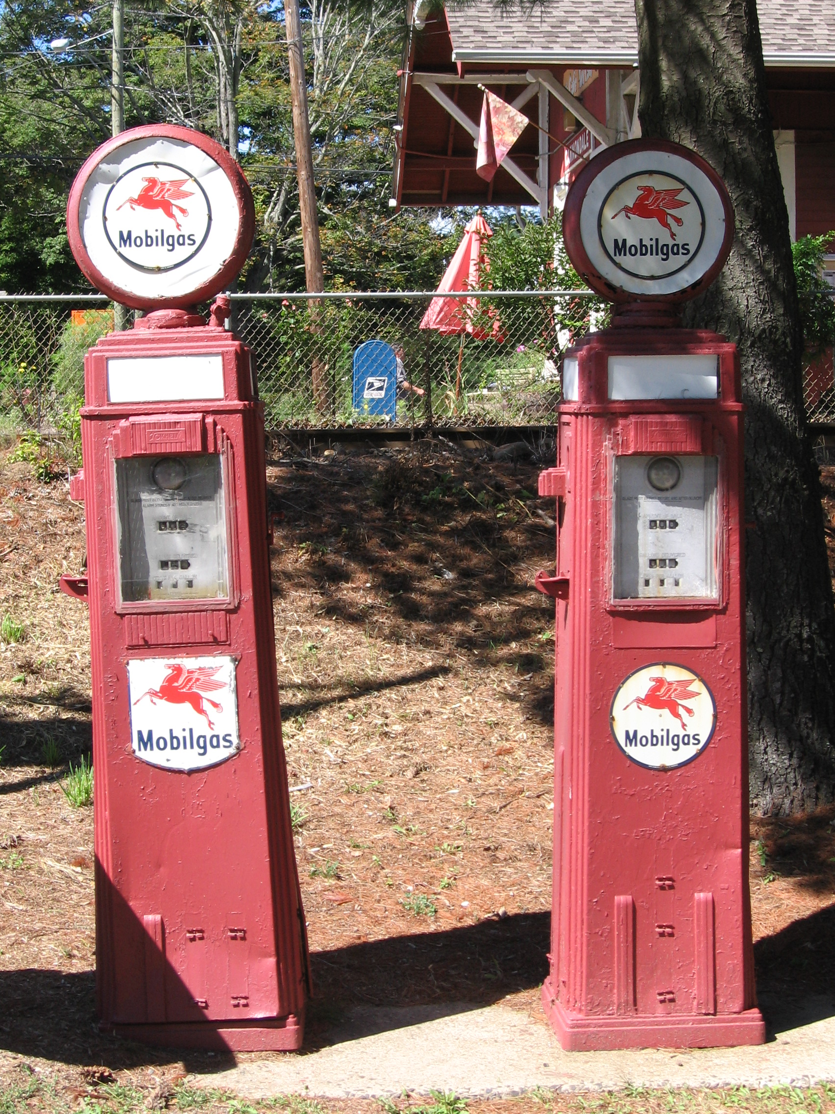 Antique "Mobilgas" gas pumps at Cannondale Crossing antiques shopping center in the Cannondale section of Wilton. Manufactured by "Zokheim" of Fort Wayne